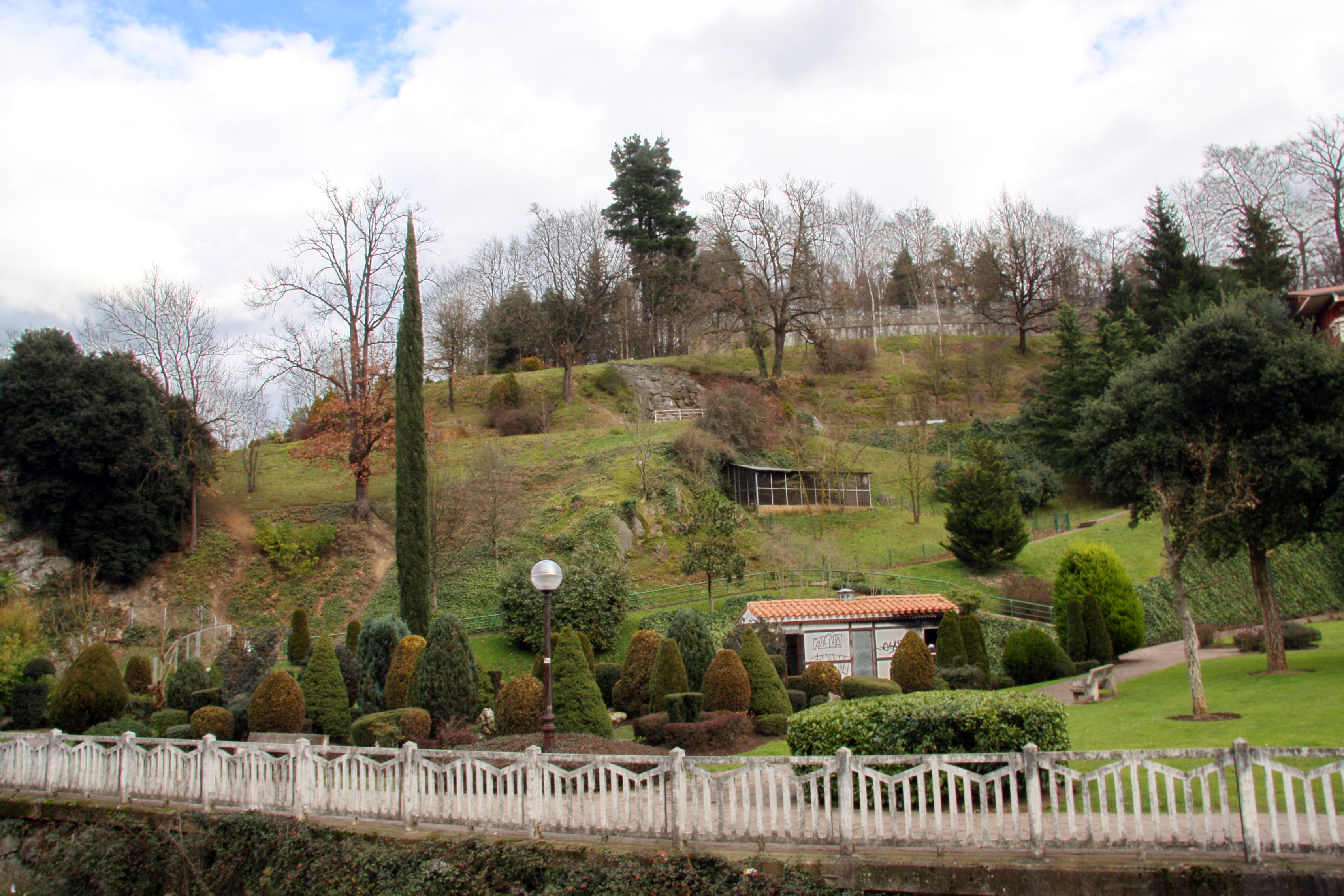 Park of Santa Barbara at Arrasate.